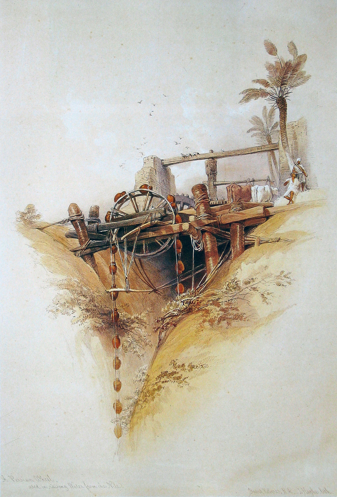 Persian water-wheel, used for irrigation in Nubia